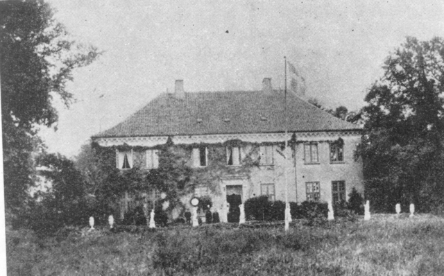 Aldershvile, a country house on the shore of Bagsværd Sø north of Copenhagen, Denmark. It was originally built by the Danish botanist and administrator Theodor Holmskjold and stood until devestated by a fire in 1909. A ruin still remains on the site.